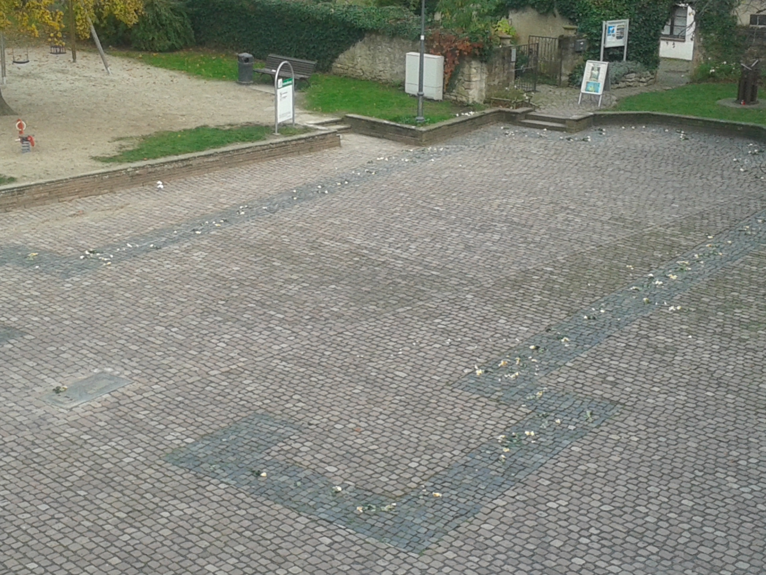 Ground view of the Old Synagogue of Emmendingen, shown by darker stones in the ground, Schlossplatz, 2019.